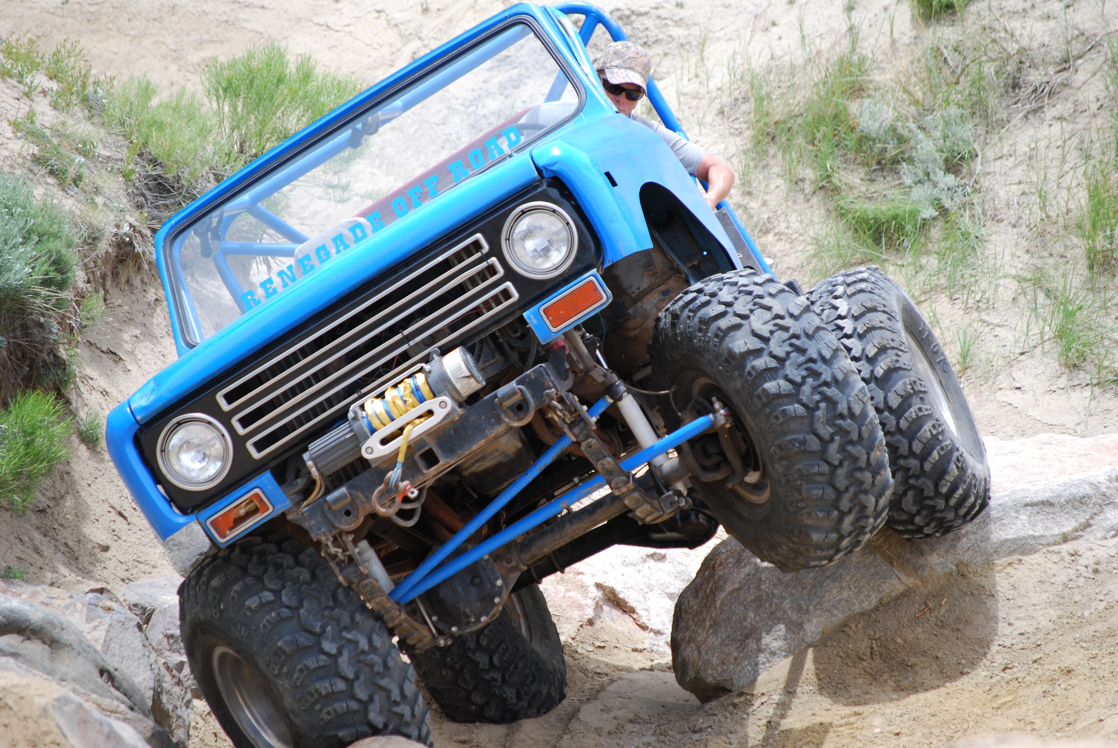 Next stop on the #mypubliclandsroadtrip in BLM Colorado is Wolford Mountain Recreation Area, a place visited by off-highway vehicle enthusiasts and rock crawlers from far and wide. Do you know what rock crawling is? It’s an extreme form of off-road driving over rough terrain like boulders, piles of rock and mountain foothills. Rock crawlers drive slowly and carefully, attempting to clear objects that sometimes seem impassable. Wolford Mountain Recreation Area is a multiple-use area with a number of primitive trails as well as opportunities to camp, fish and hike. An open OHV play area and an extreme 4x4 trail offer energizing rides for the most daring riders. Routes for hikers and bikers cut through the recreation area along with other, tamer trails for ATVs, motorcycles and other off-road vehicles. In the winter, you can even check out some designated snowmobiling trails! Photo by Vanessa Lacayo, Public Affairs Specialist, BLM Colorado